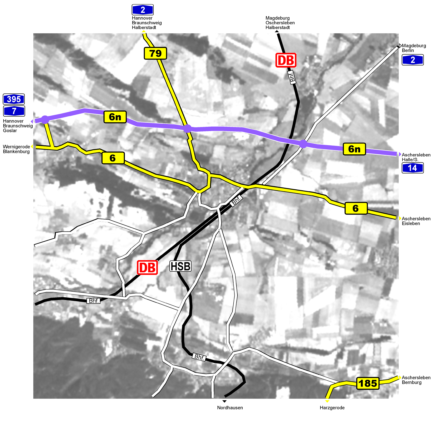 Traffic ways in the region Quedlinburg (Germany)